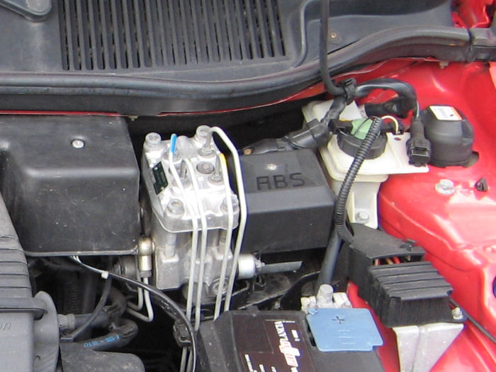 ABS system in Fiat Punto